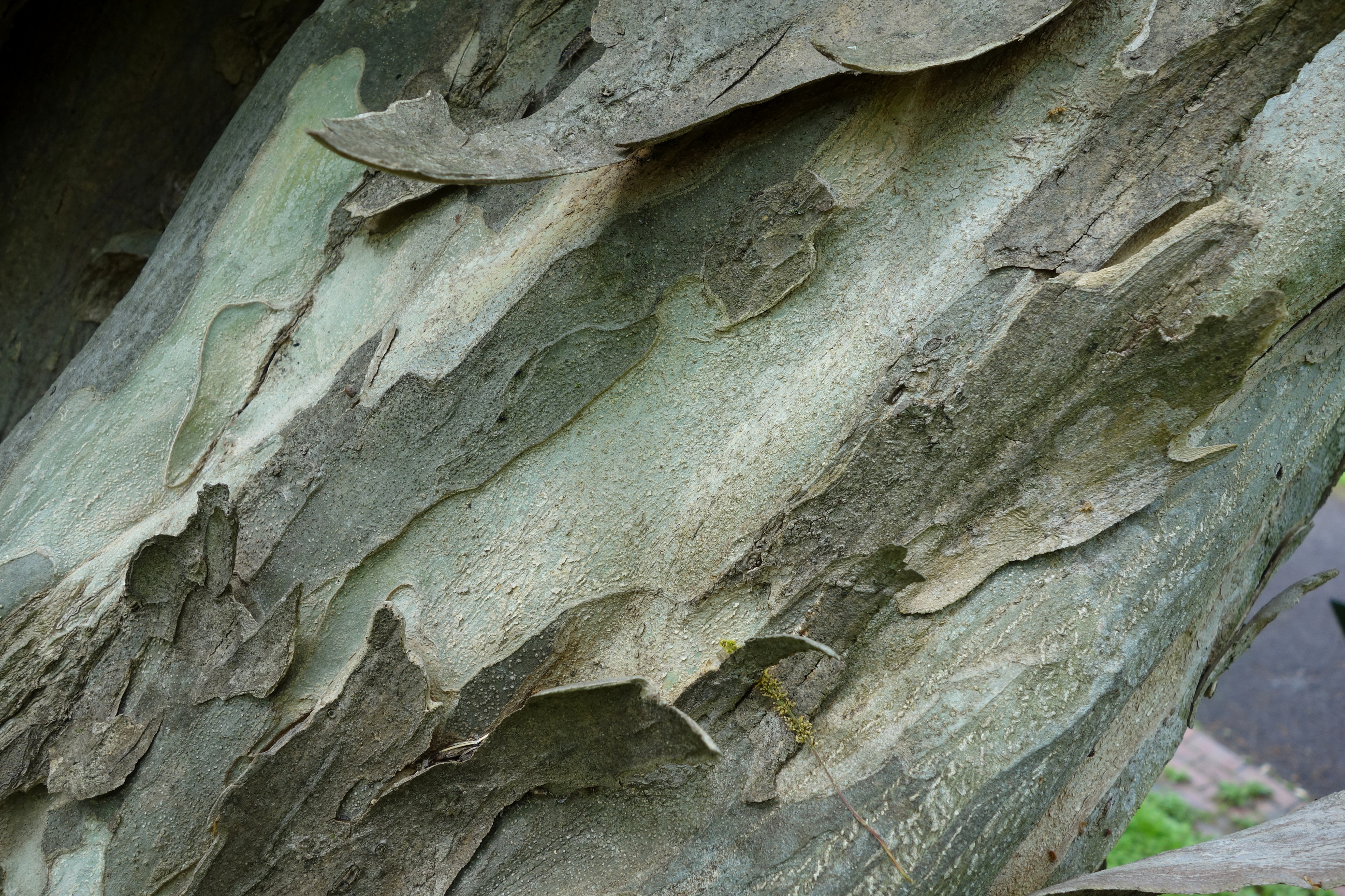 Botanical specimen in the Morris Arboretum, 100 East Northwestern Avenue, Chestnut Hill, Philadelphia, Pennsylvania, USA.